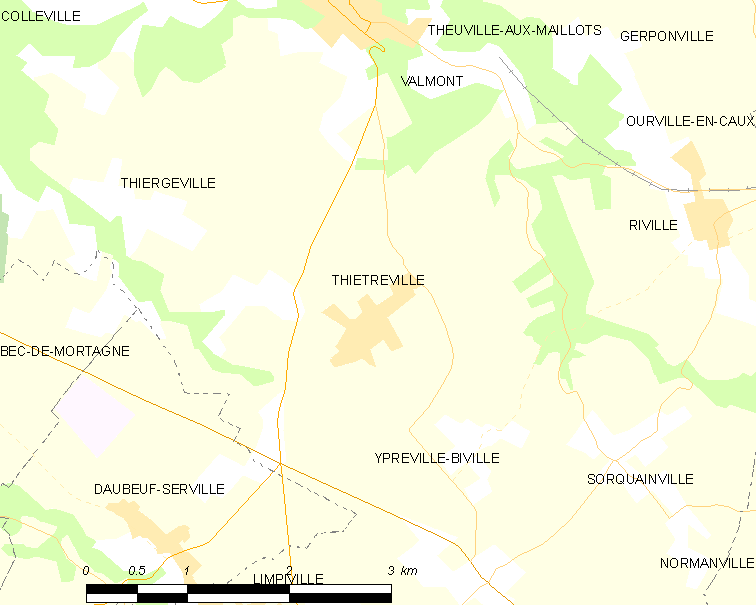 Map of French municipality Thiétreville